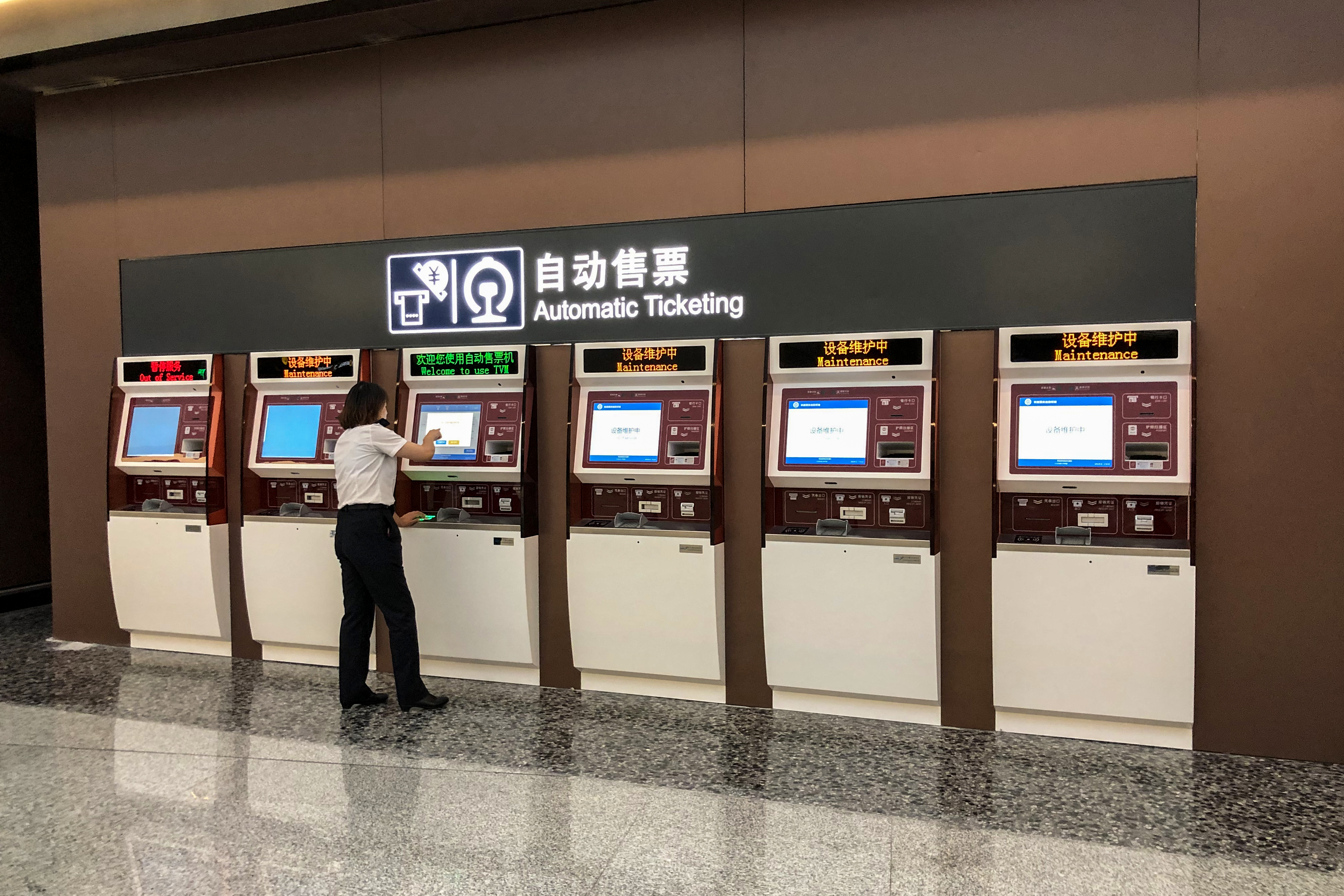 The station is administrated by Beijing West Railway Station. Only one machine was available then...